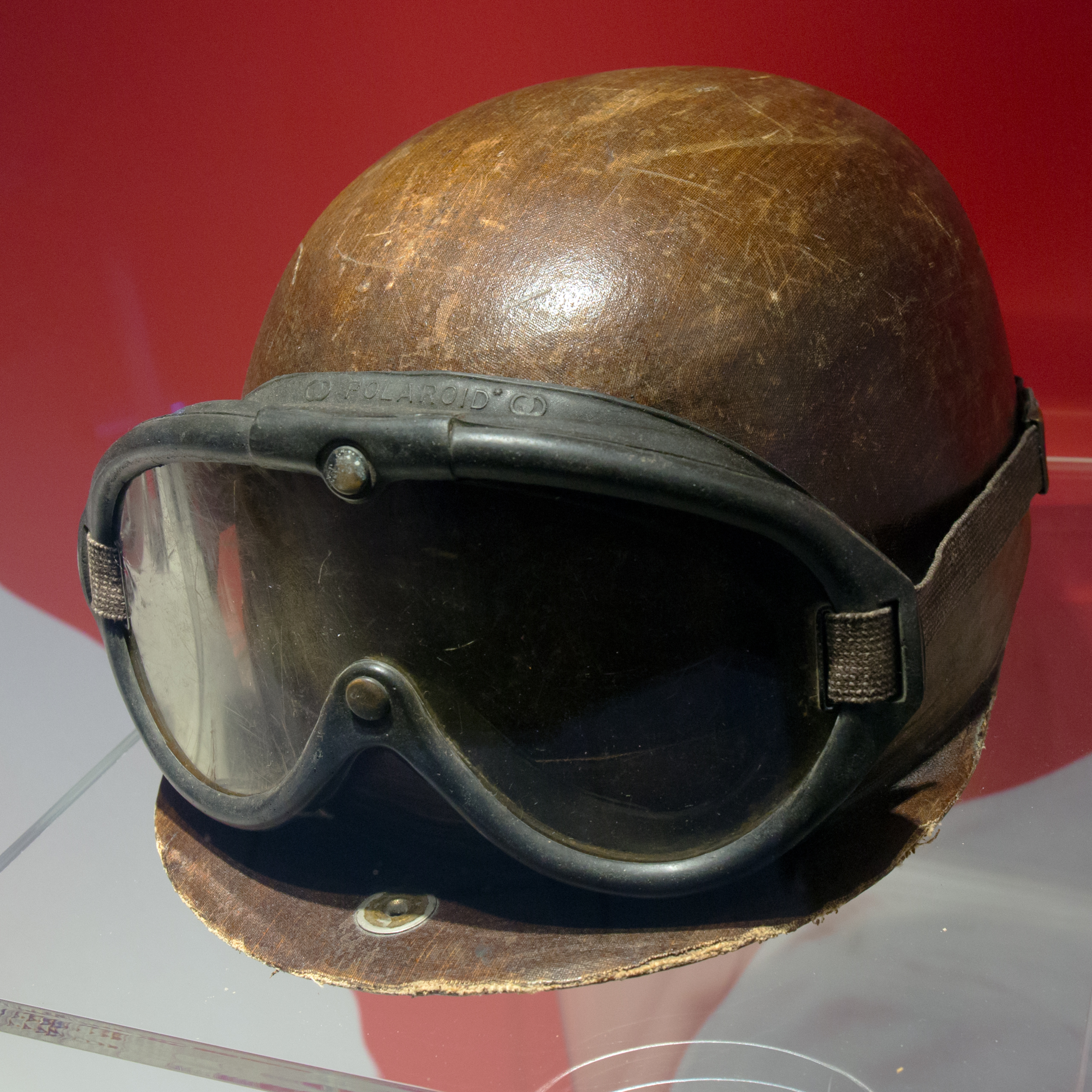 Museo Ferrari: Helmet and racing goggles of Juan Manuel Fangio, in the 1950s.